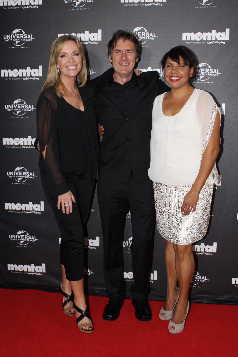 Mental movie premiere at Event Cinemas, Sydney, Australia This evening 'Mental' enjoyed its Australian movie premiere at Event Cinemas, George St, Sydney. The weather was wet outside, but the atmosphere was warmish inside, as Sydney enjoyed yet another red carpet event. Australian filmmaker PJ Hogan reunites with his "Muriel’s Wedding" star Toni Collette with Liev Schreiber, Anthony LaPaglia and Rebecca Gibney. Plot... A charismatic, crazy hothead transforms a family's life when she becomes the nanny of five girls. Director: P.J. Hogan Writer: P.J. Hogan Stars: Liev Schreiber, Toni Collette and Caroline Goodall Websites Mental official website Universal Pictures Australia Event Cinemas Eva Rinaldi Photography Eva Rinaldi Photography Flickr Music News Australia